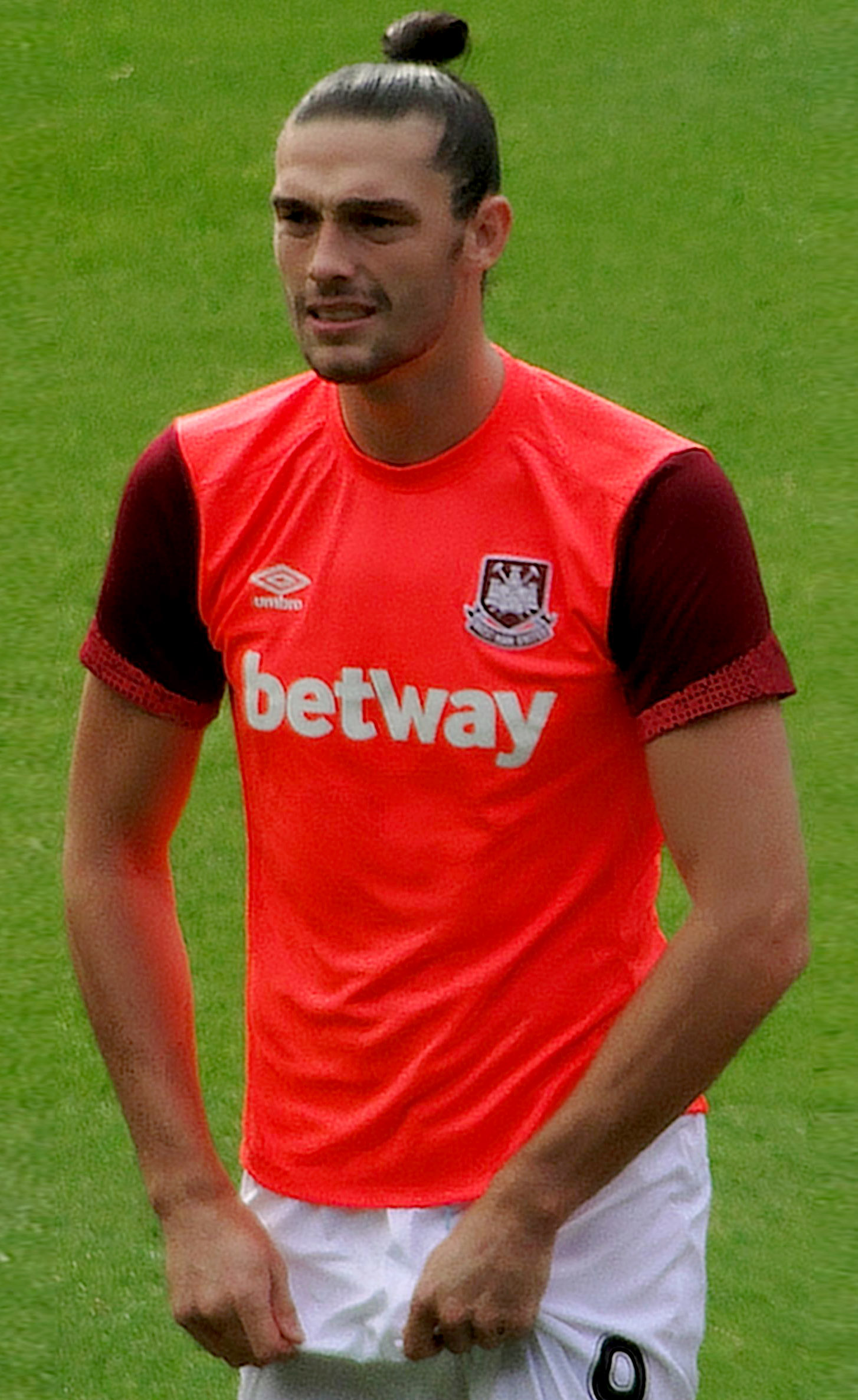 West Ham United footballer, Andy Carroll at the Boleyn Ground, September 2015.